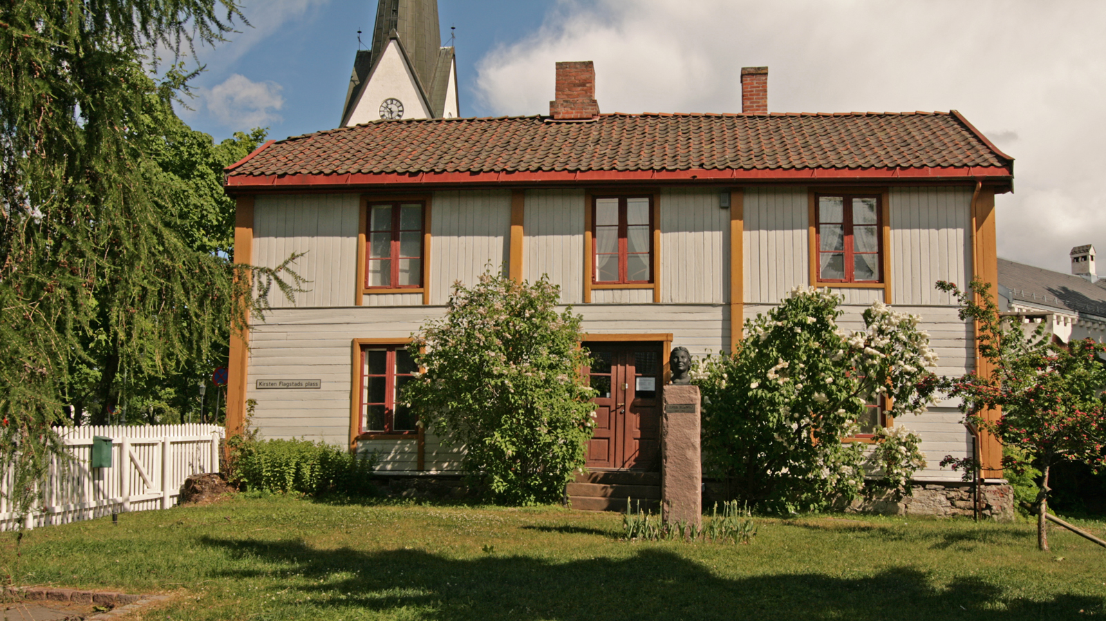 Strandstua, Kirkegata 11, Hamar, Norway. Modern Hamar's oldest house, built prior to the founding of the town in 1849. The opera singer Kirsten Flagstad was born here. Today Kirsten Flagstad Museum.